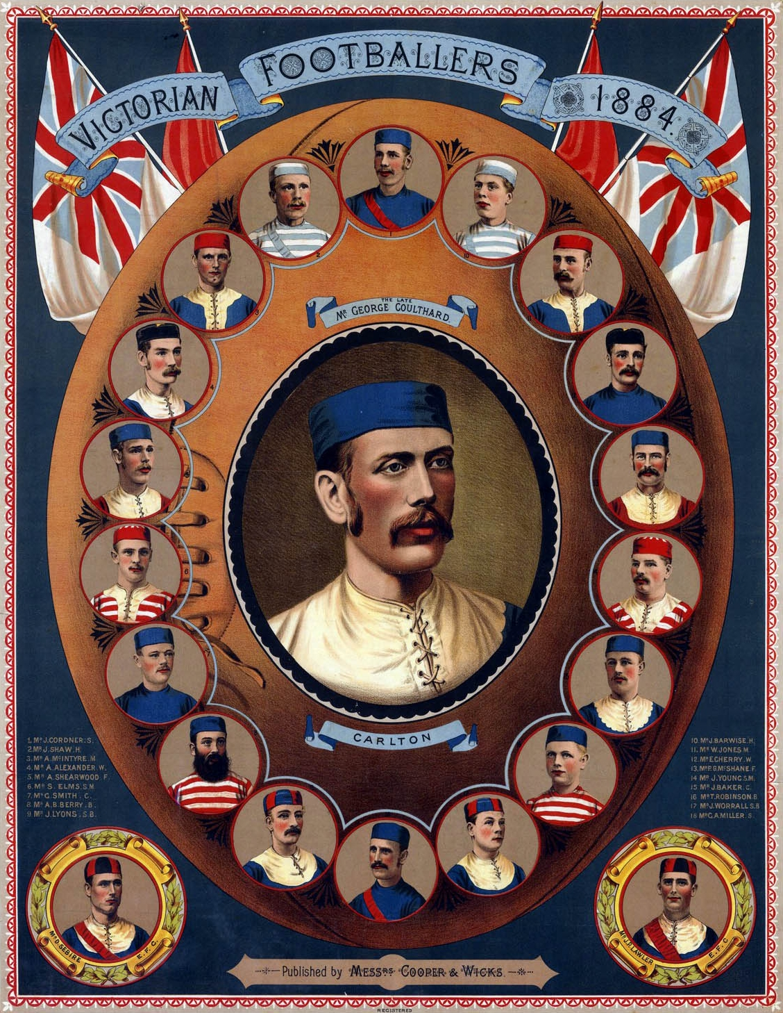 Portrait of leading Victorian footballers. Numbered portraits; 1. Mr J. Cordner; 2. Mr J. Shaw; 3. Mr A. McIntyre; 4. Mr A. Alexander; 5. Mr A. Shearwood; 6. Mr S. Elms; 7. Mr G. Smith; 8. Mr A.B. Berry; 9. Mr J. Lyons S.B.; 10. M. J. Barwise H.; 11. Mr W. Jones M.; 12. Mr E. Cherry W.; 13. Mr P. G. McShane F.; 14. Mr J. Joung S.M.; 15. Mr J. Baker C.; 16. M. T. Robinson S.B.; 17. Mr J. Worrall S.B.; 18. Mr G. A. Miller S. Printed by Troedel & Co of Collins Street, for publishers Cooper & Wicks; coloured chalk lithograph; sheet 57.2 x 44.0 cm